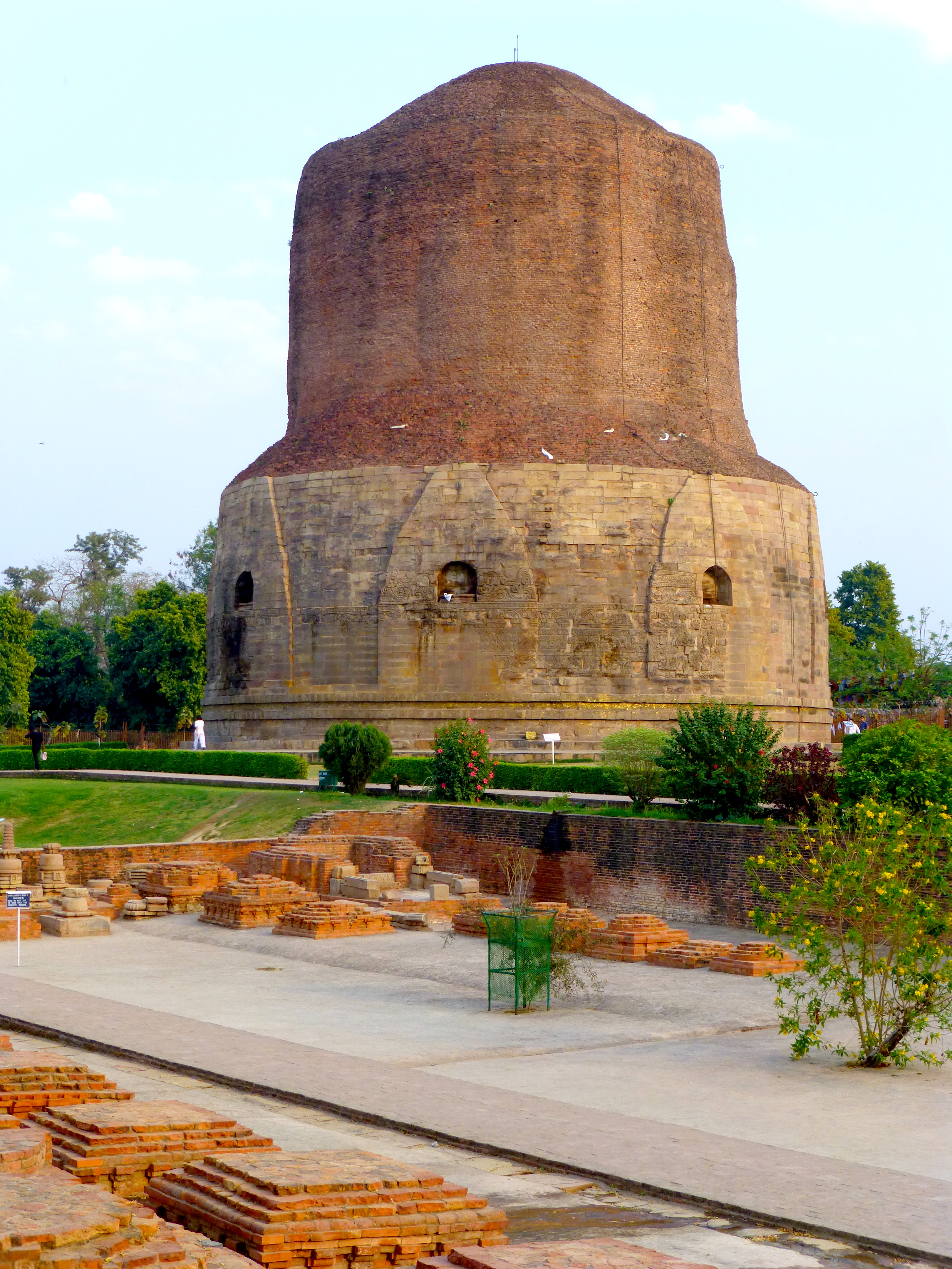 26 Dhamekh Stupa, Sarnath. Photograph of the Dhamek Stupa at Sarnath in Pradesh taken by Anandajoti.